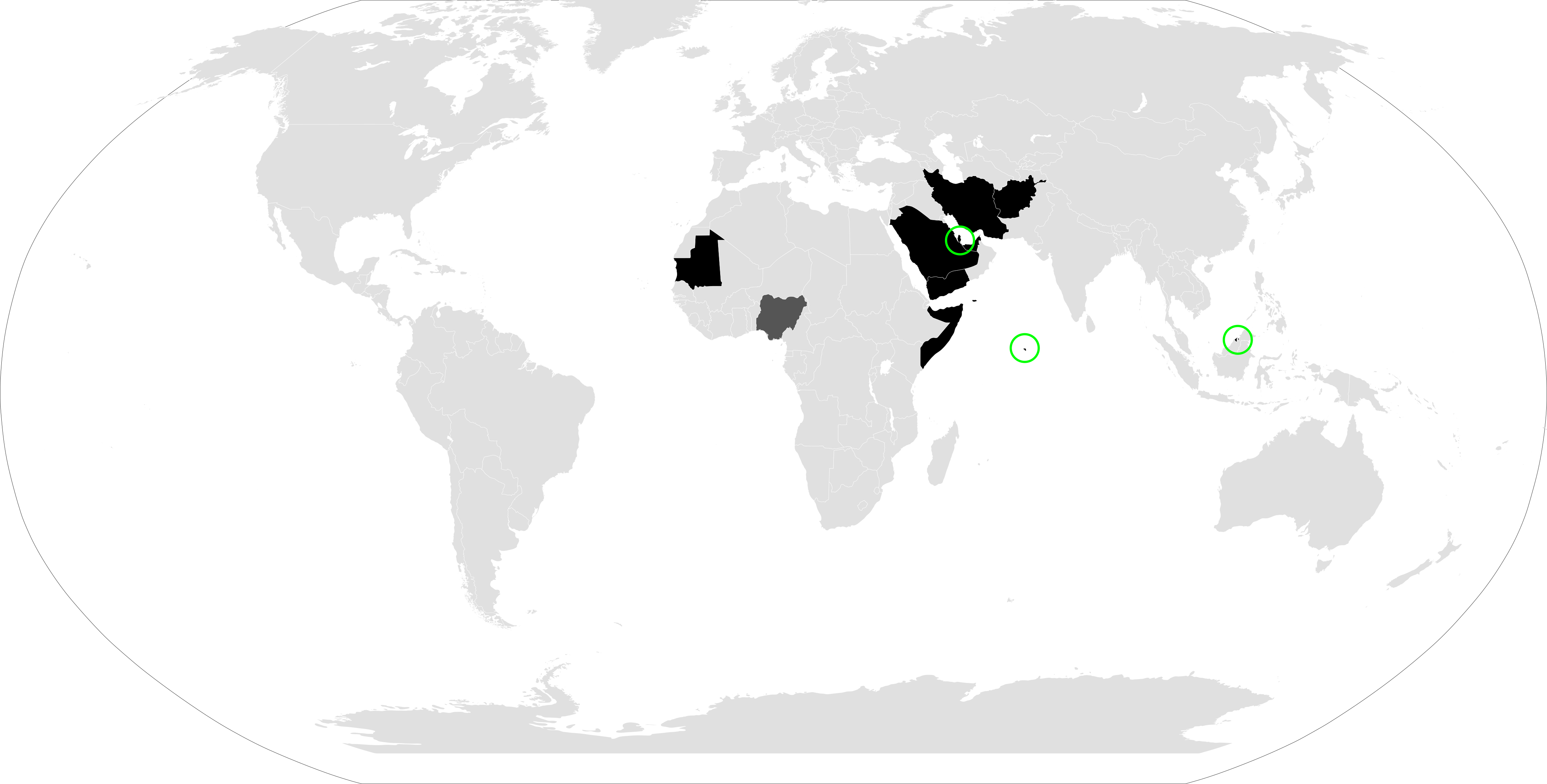 States in which death penalty for apostasy exists per Library of Congress. Federations in which some of the states have death penalty for apostasy.